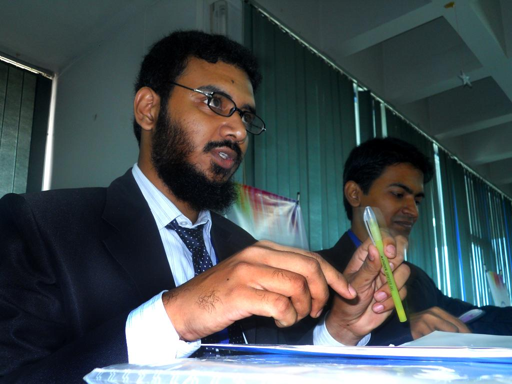 BANMUN, 2012